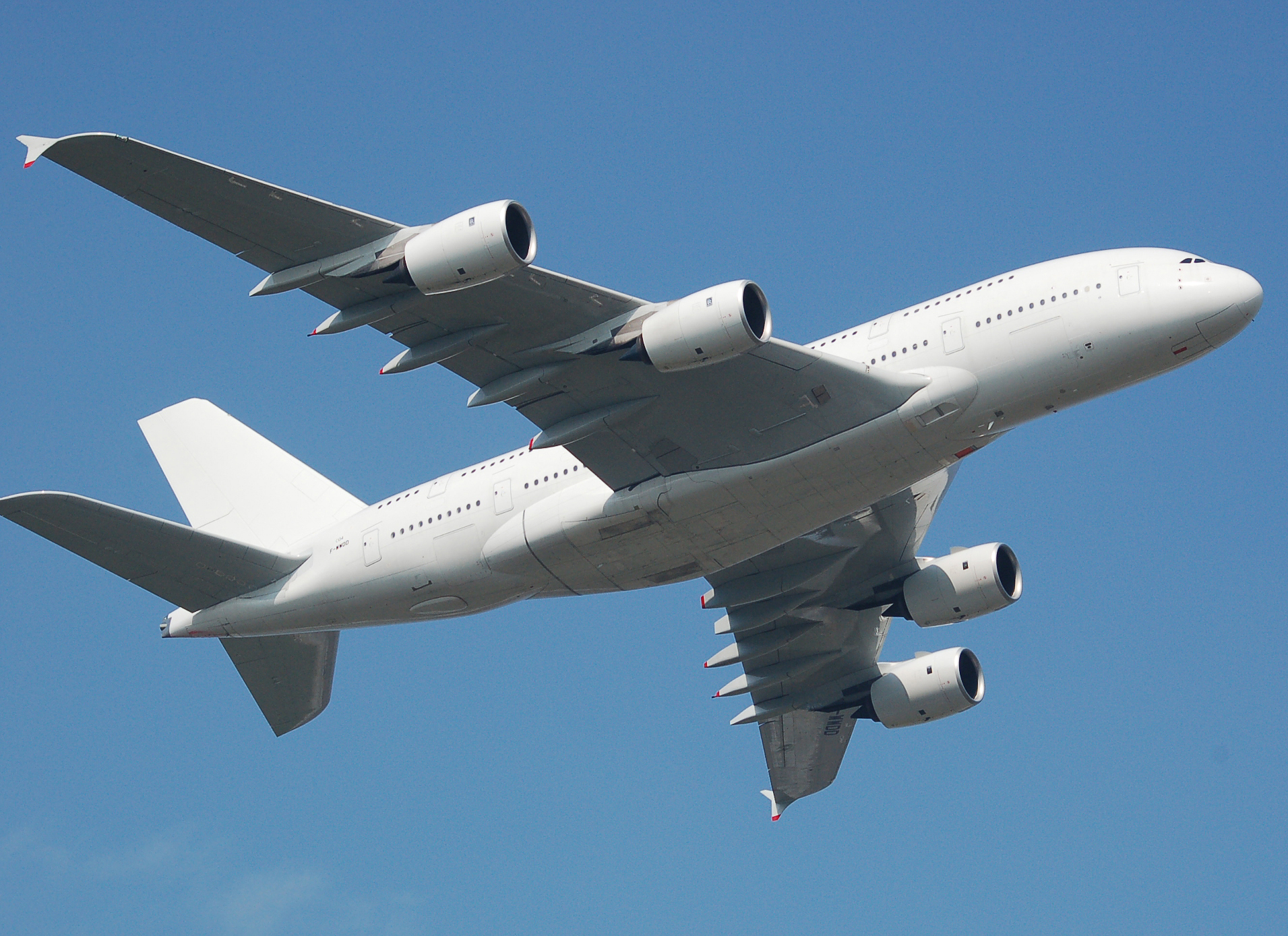 Airbus A380 F-WWDD, the fourth A380 and not yet painted, flies over Filton Airfield, Bristol, England. Photographed by Adrian Pingstone on 26th March 2007 and placed in the public domain.